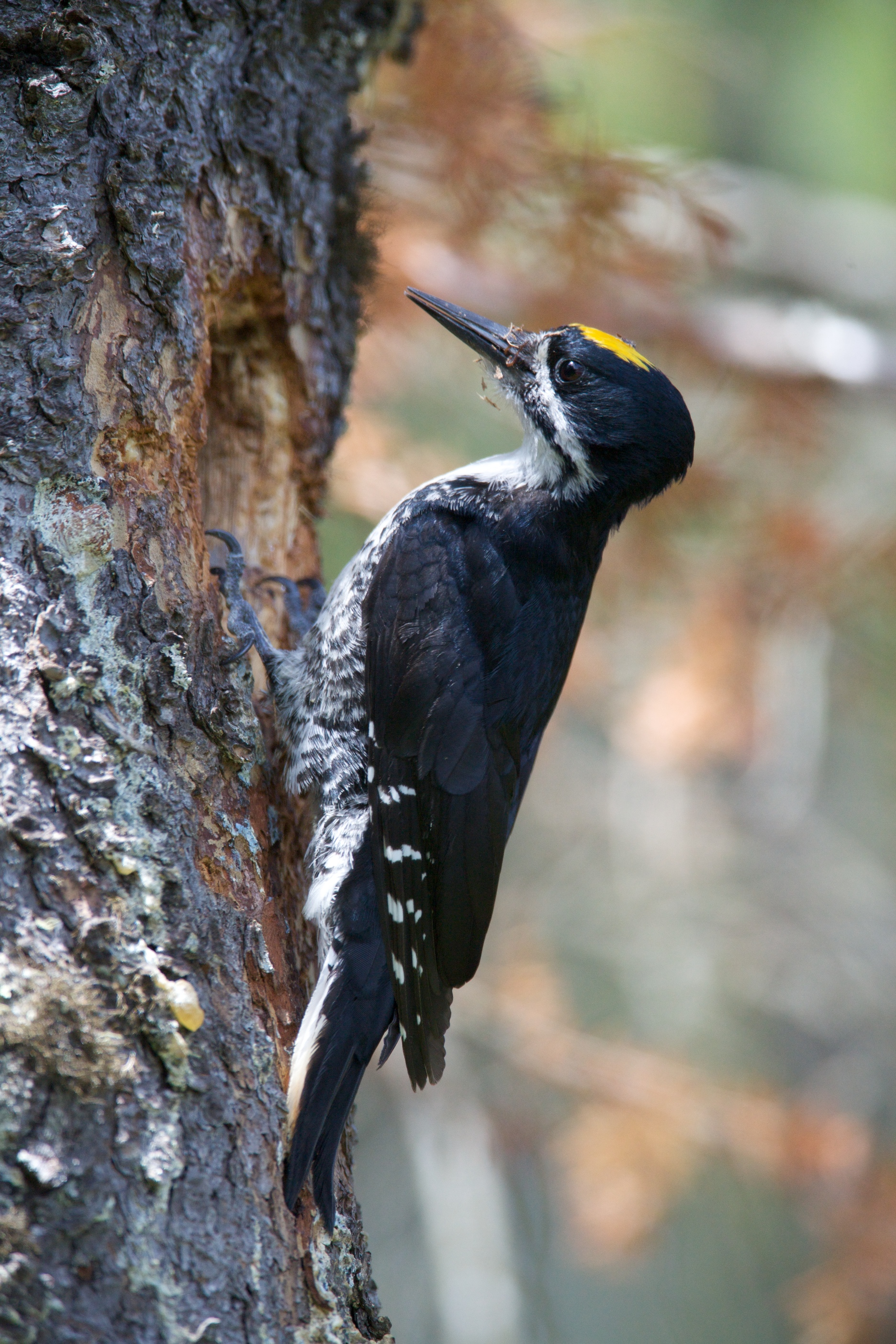 A male Black-backed Woodpecker at Silvio O. Conte National Wildlife Refuge, Brunswick, Vermont, USA.